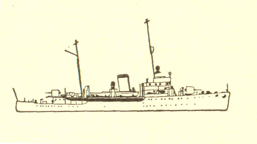 Danish Gunboat Ingolf (1933).